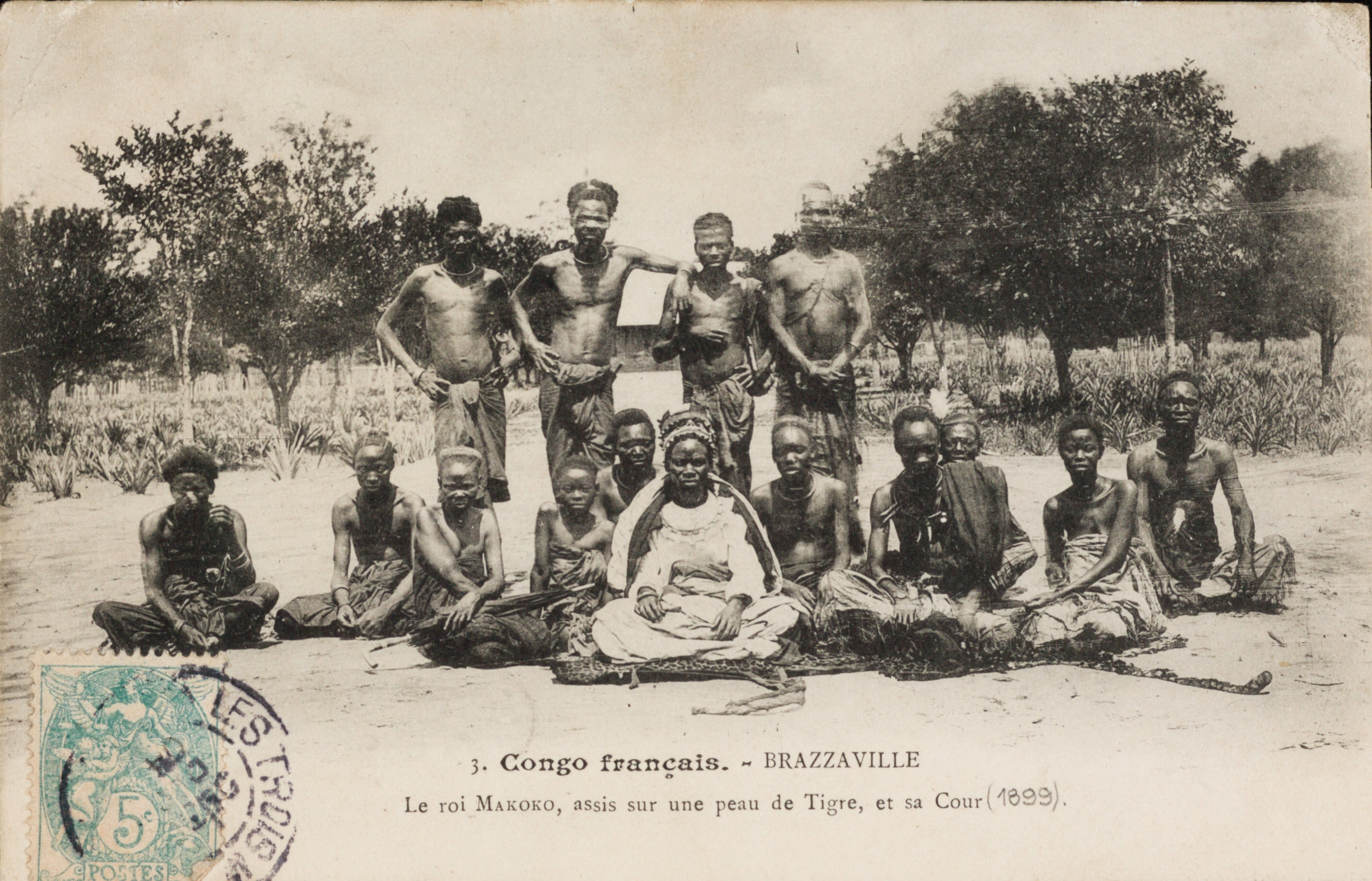 "French Congo. Brazzaville. King Makoko sitting on a tiger skin and his court" (Your attention, please : a "makoko" is nearly the same as a king, it's NOT a name. So, prefer : "A Bateke Makoko and his Court". There is NO tiger in Africa, and it seams impossible that this skin could be tiger skin. Références Quai Branly [1], n° d'inventaire : PP0230699.